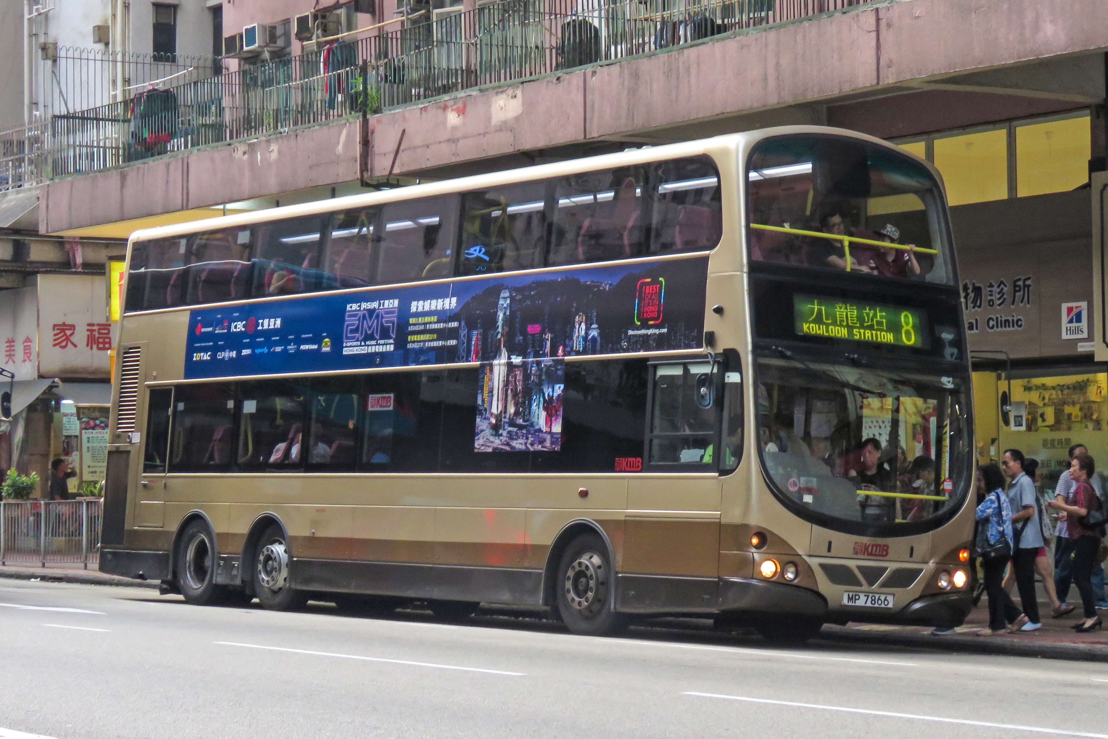 MP7866 is seen loading some passengers at 48 Wuhu St, Hung Hom. The bus stop is called "Marsh Street" by the nearby crossing.